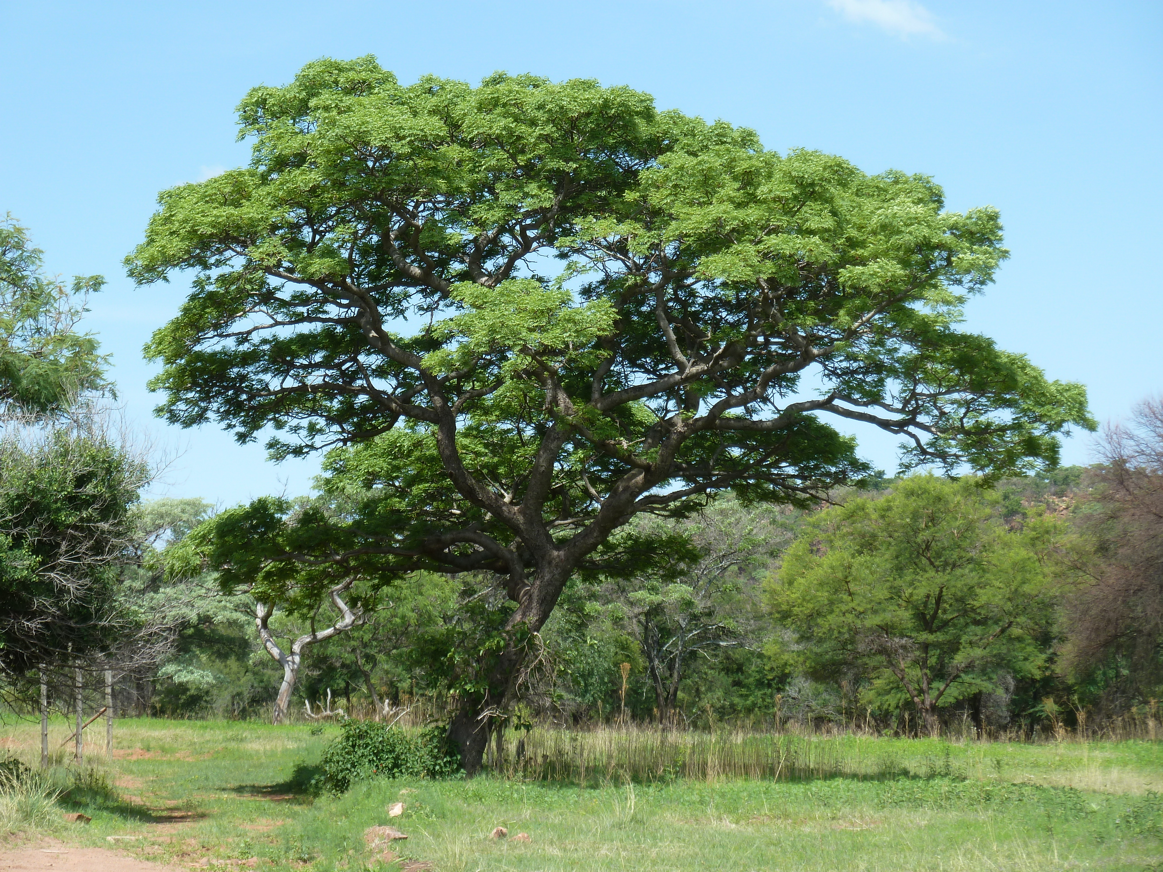 Wild syringa tree at Seringveld near Pretoria